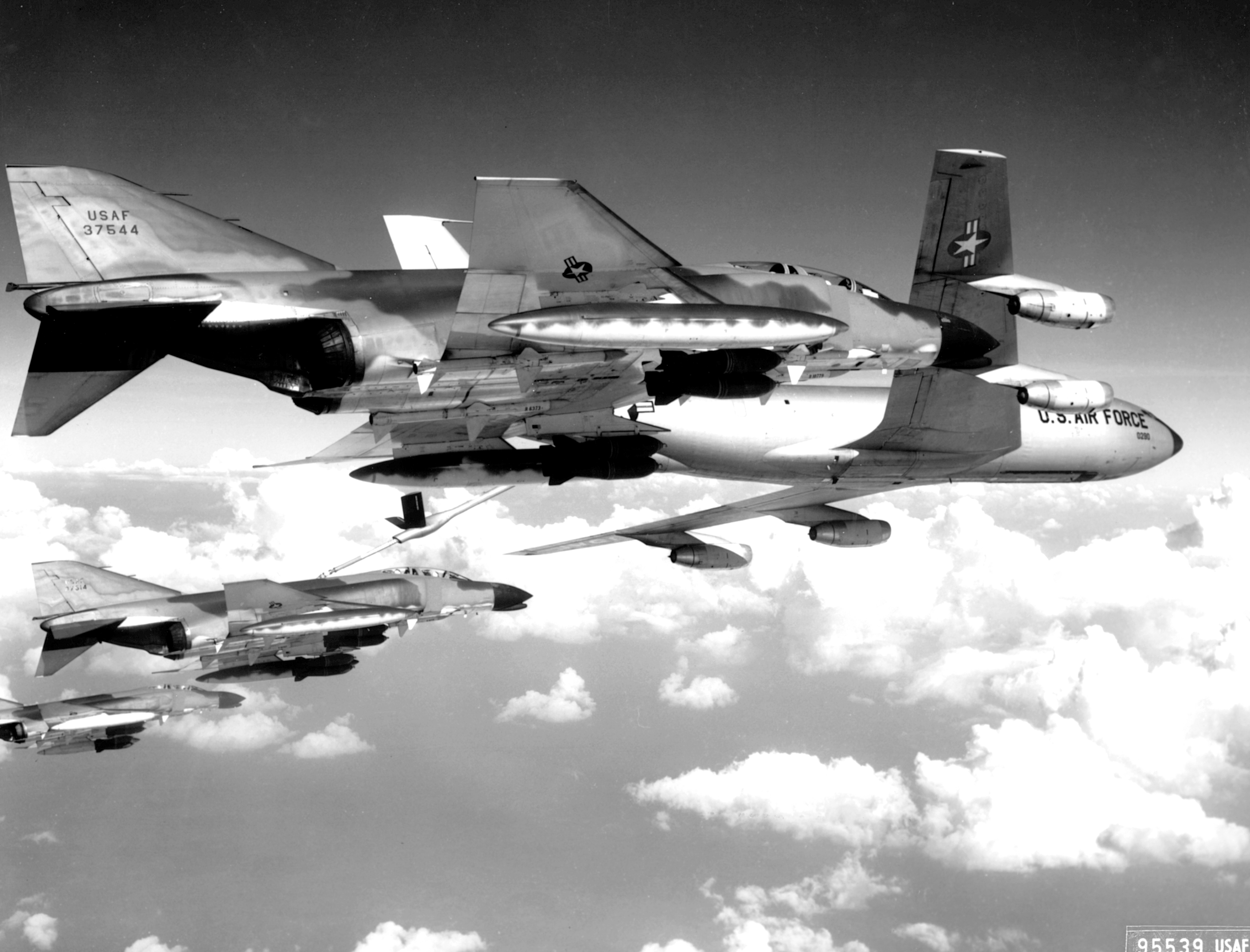 A flight of U.S. Air Force McDonnell F-4C Phantom II fighters refuel from a Boeing KC-135A Stratotanker aircraft before making a strike against targets in North Vietnam. The Phantoms are loaded with six 750 pound general purpose bombs, (three each on triple ejector racks (TER) on the inboard pylons) four AIM-7 Sparrow air to air missles, and 370 gallon external fuel tanks on the outboard pylons.